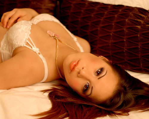 Amanda Loveheart